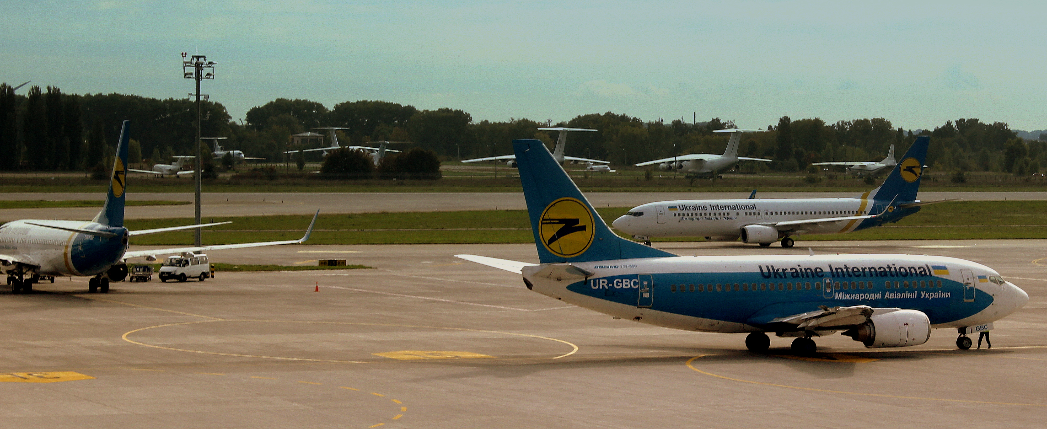 BORYSPIL AIRPORT KIEV UKRAINE SEP 2013